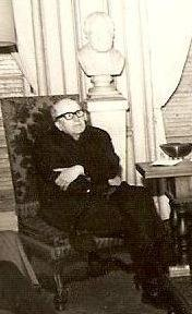 Hugo Gunckel in discussion with Professor Luisa Eugenia Navas (not visible)